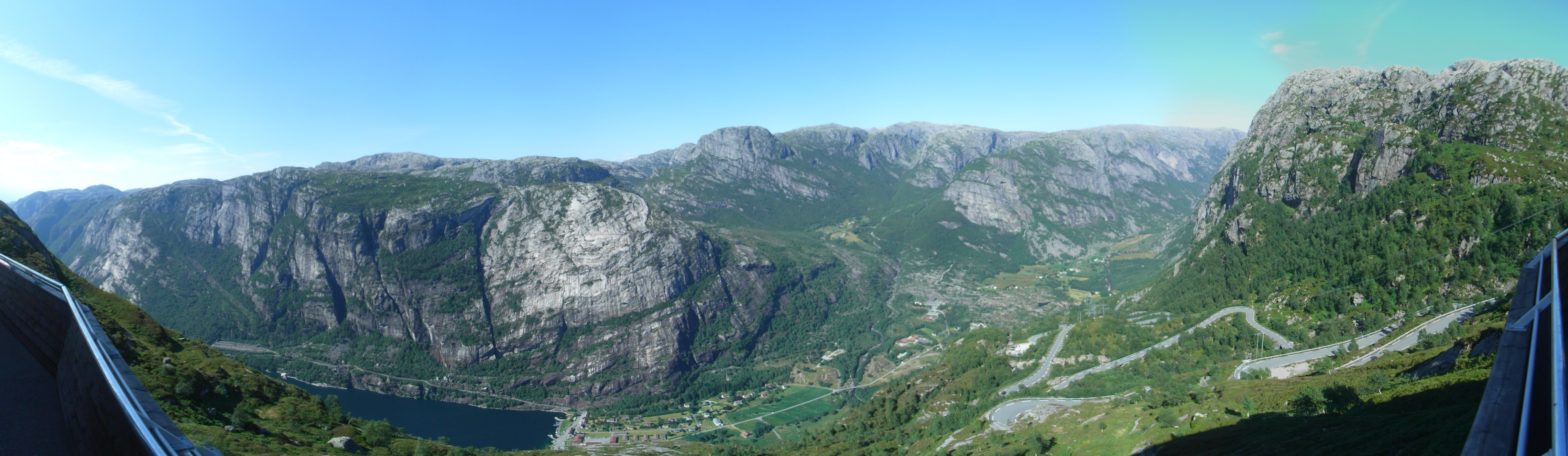 180 degree (almost) panoramic view over the Lysebotn village located in the municipality Forsand, Rogaland, Norway. The village is located innermost in the fjord Lysefjord. Taken from Øygardstøl.